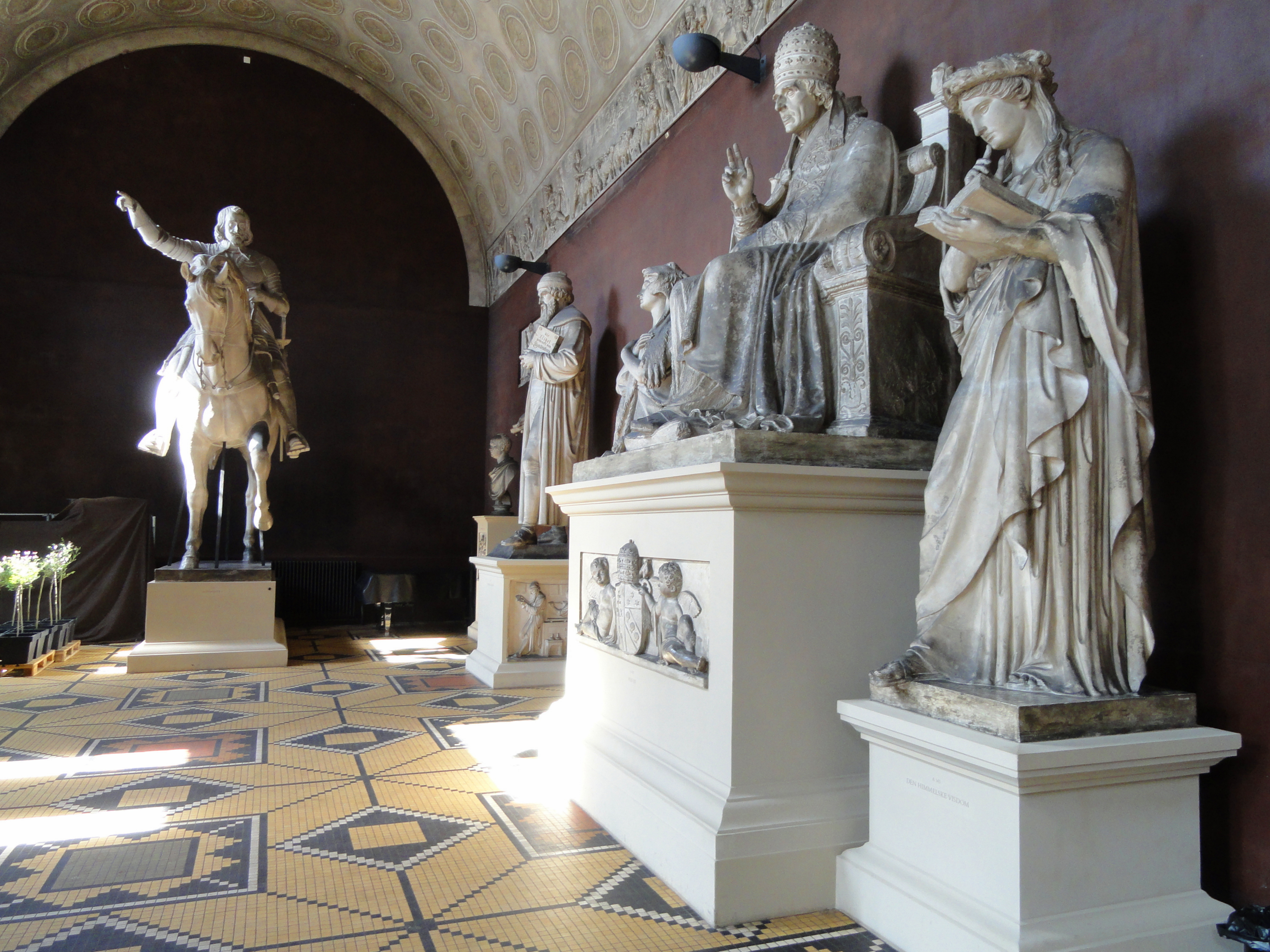 Interior view of Thorvaldsens Museum, Copenhagen, Denmark. Sculptor: Bertel Thorvaldsen (c. 1770-1844). This artwork is now in the public domain because the artist died more than 70 years ago.